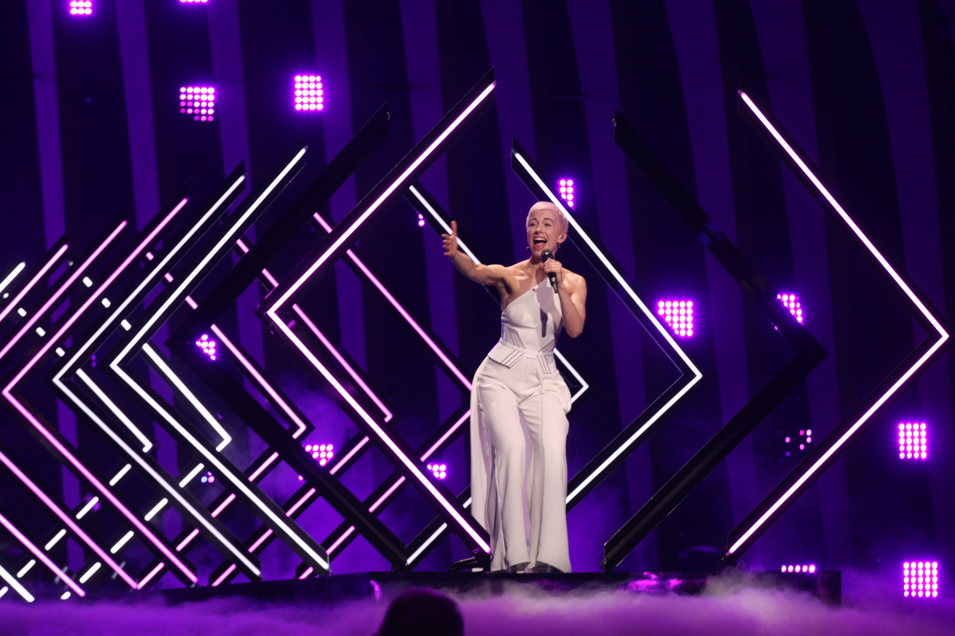 SuRie representing the United Kingdom with the song "Storm" during a rehearsal before the grand final of the Eurovision Song Contest 2018 in Lisbon.